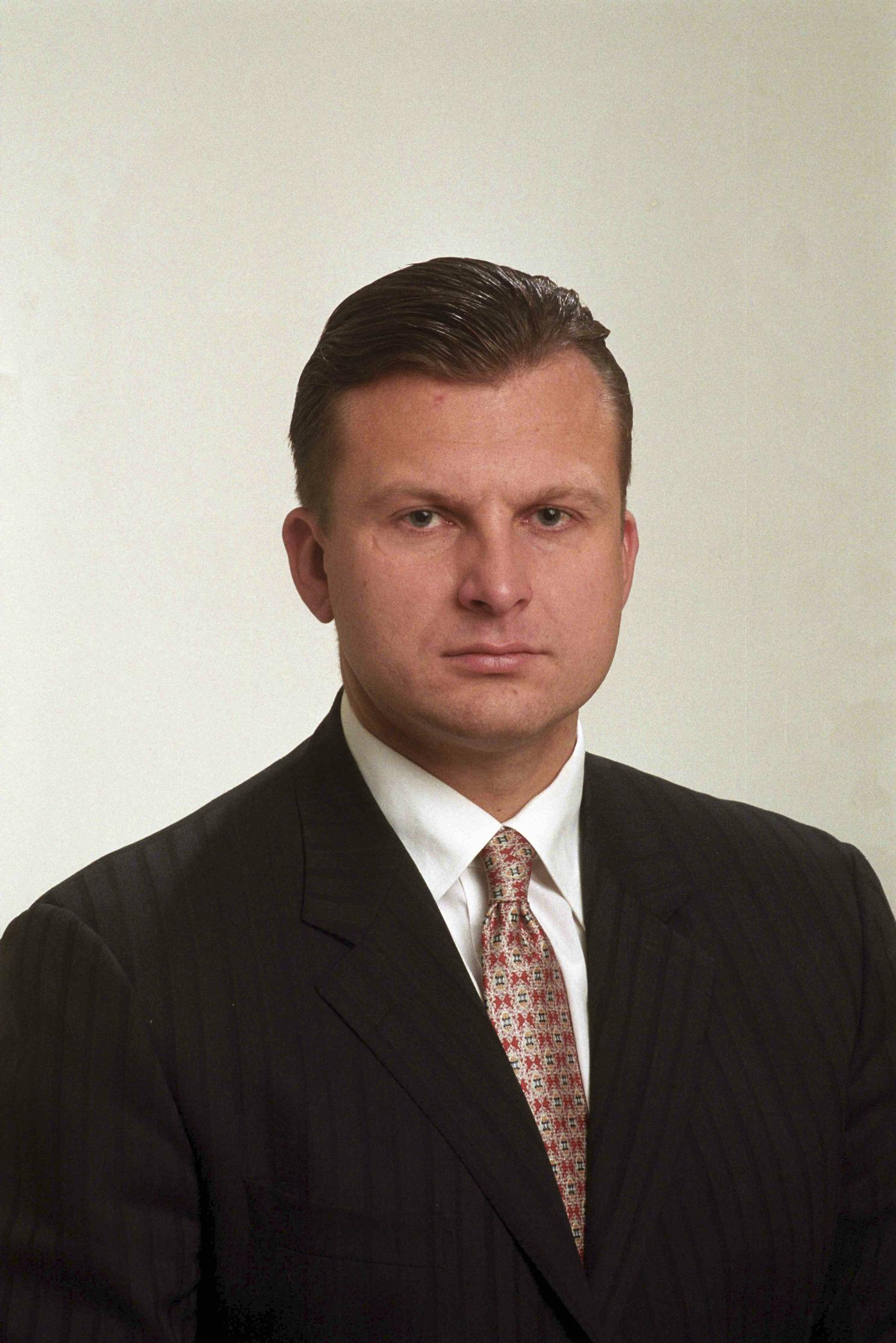 Deputy of the 9th Saeima Ainārs Šlesers